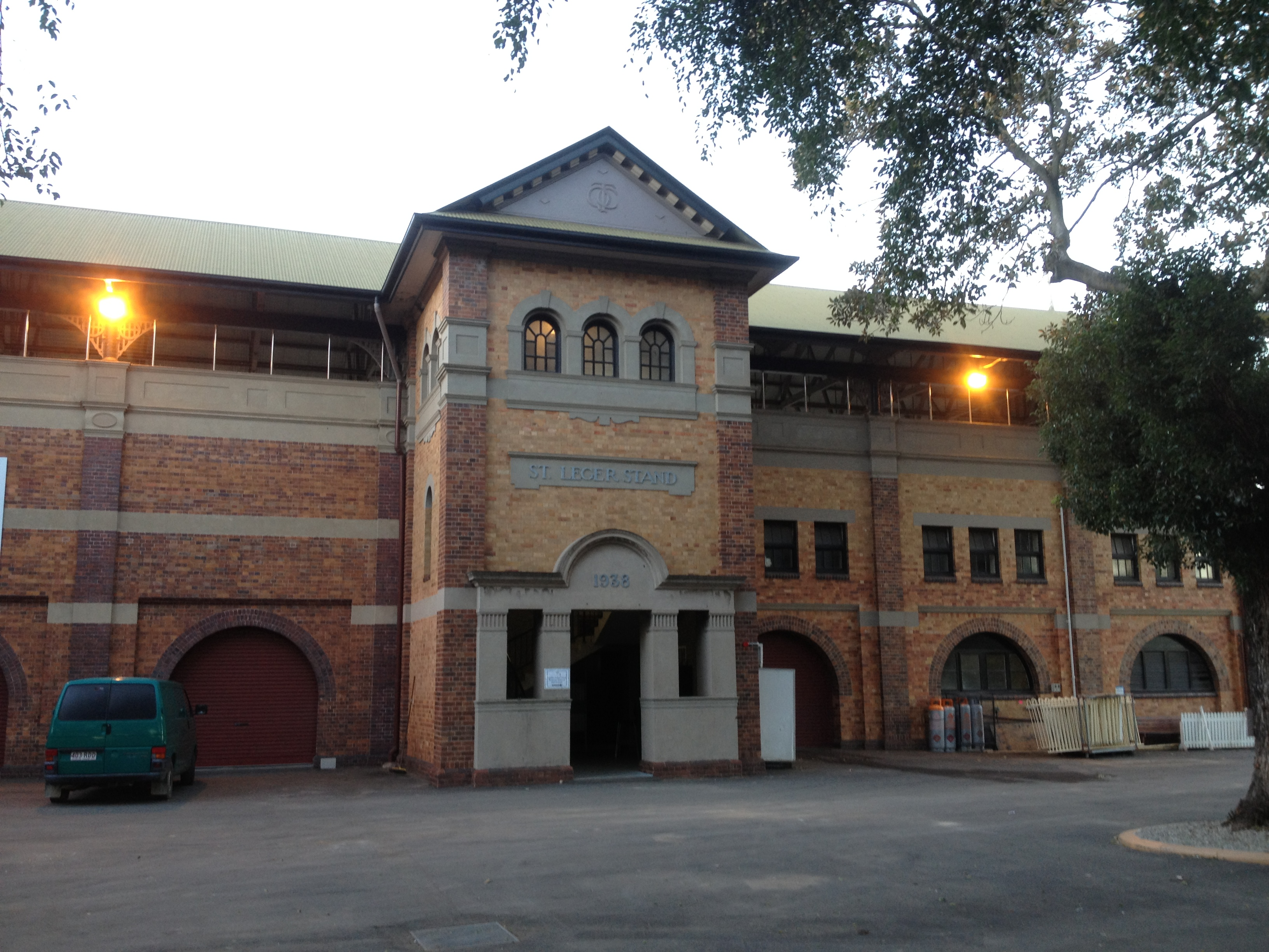 St. Leger Stand, Eagle Farm Racecourse